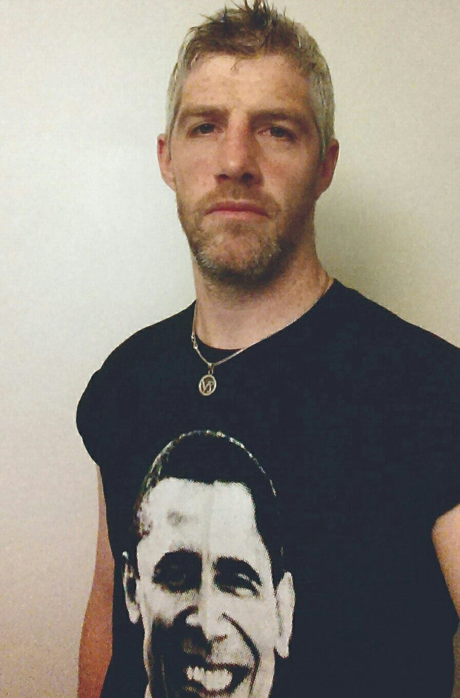 A picture of Kieran O'Reilly, the performer, in Dublin in January, 2017.